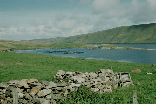 Voe of North House with fish farming on East Burra with Shetland Mainland in the background, Shetland, Scotland